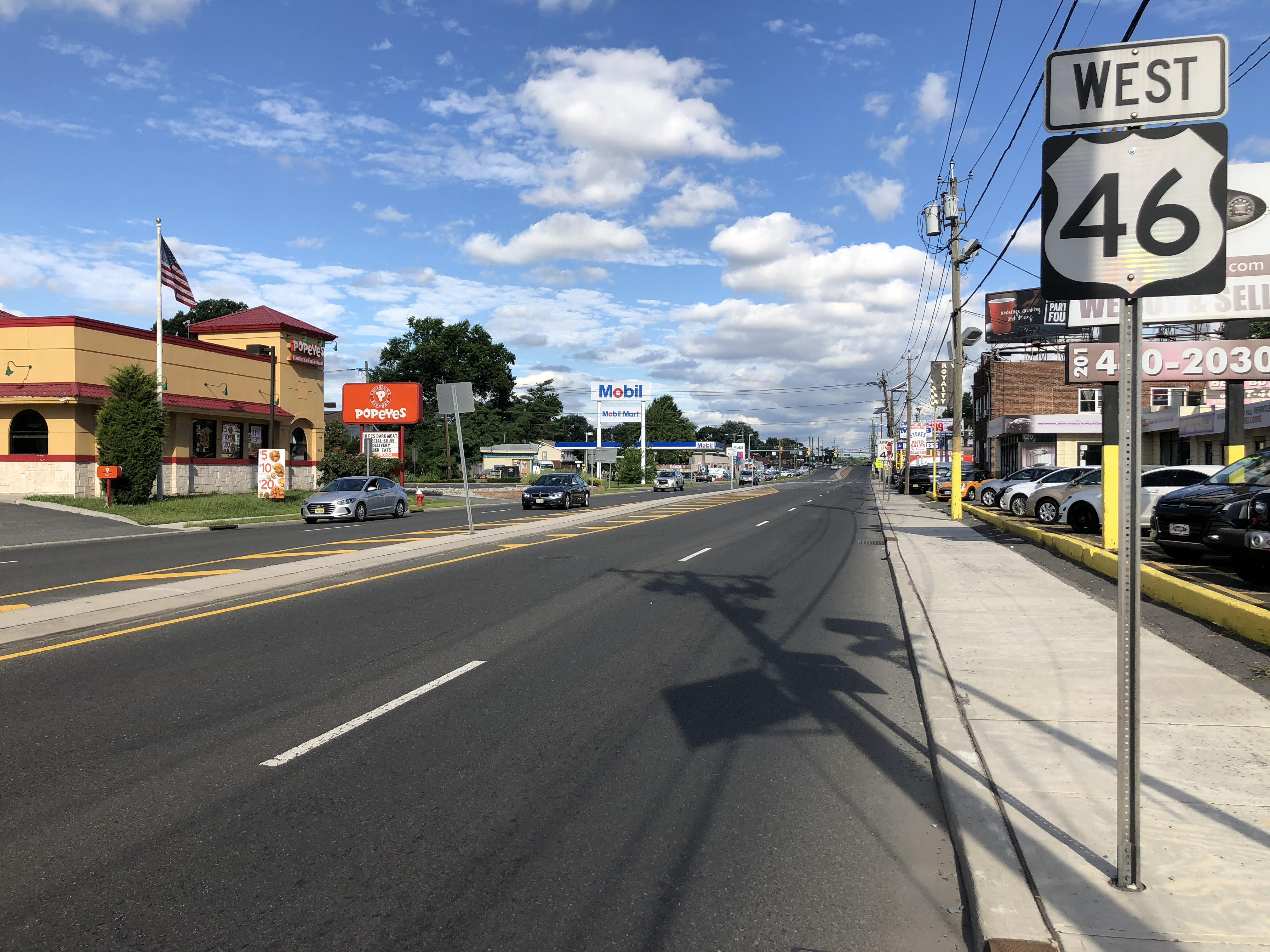 View west along U.S. Route 46 (Sylvan Avenue) just west of Bergen County Route 124 (Bergen Turnpike) in Little Ferry, Bergen County, New Jersey